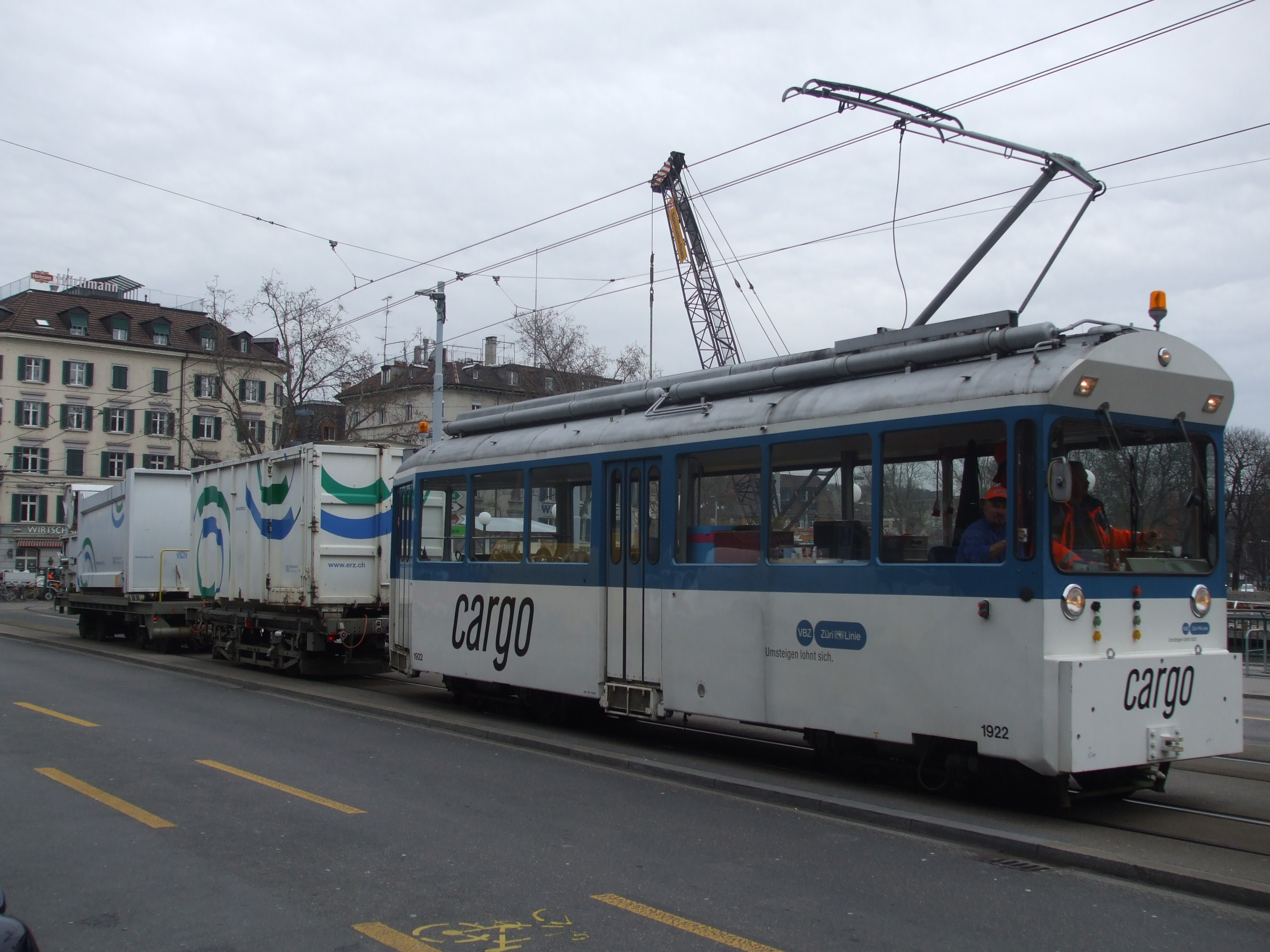 Cargo Tram seen outside Zürich Hauptbahnhof